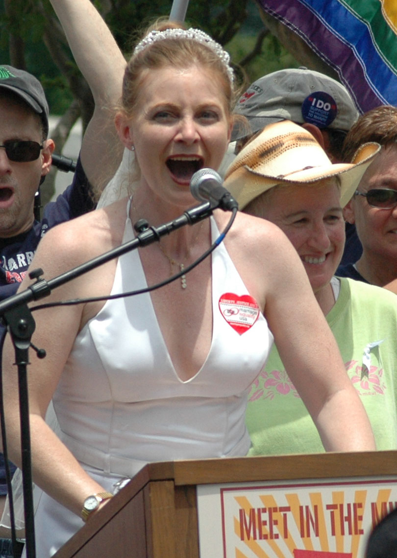 Picture of Molly McKay speaking at the Meet In The Middle conference, Fresno.